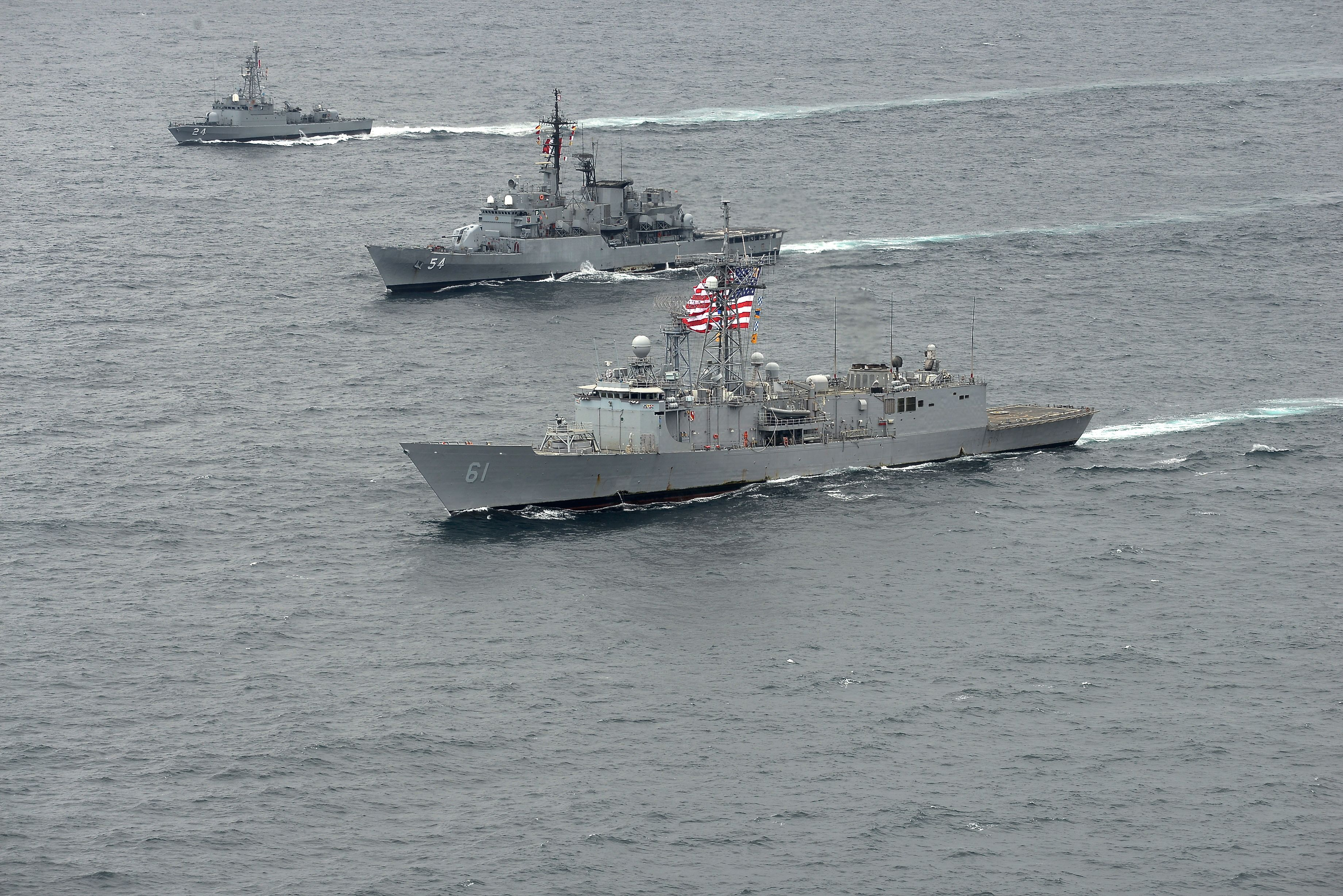 The U.S. Navy frigate USS Ingraham (FFG-61), homeported in Naval Station Everett, transits in formation with the Peruvian Naval vessels BAP Mariátegui (FM 54) and BAP Herrera (CM 24) during UNITAS 2014. UNITAS is the U.S. Navy's longest-running annual multinational maritime exercise, held 12-26 September 2014.